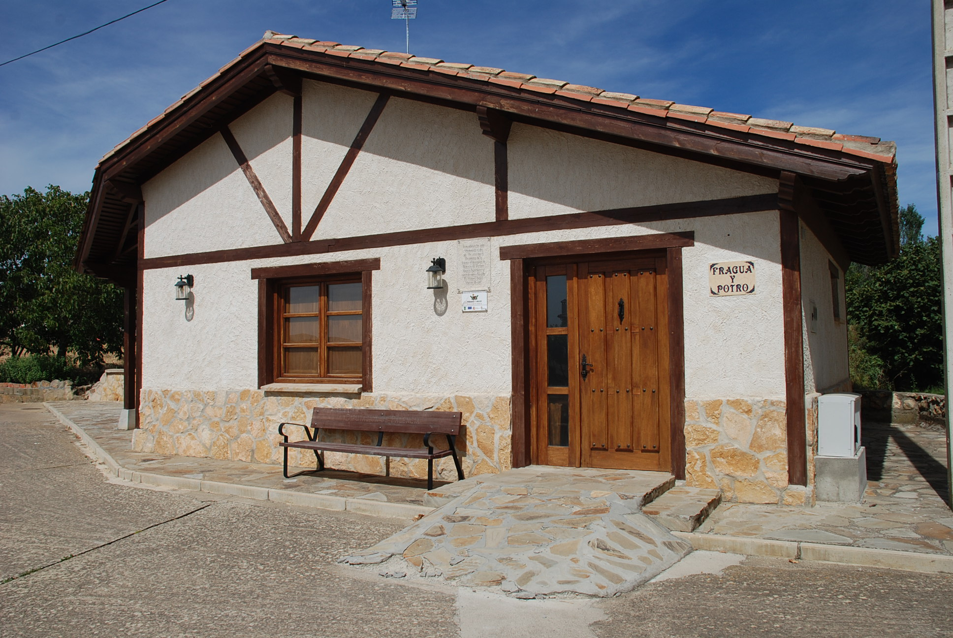 Olea de Boedo (Palencia, Castile and León).